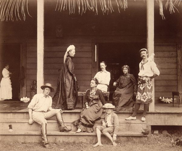 Photograph of Robert Louis Stevenson and family at Vailima on the island of Upolu in Samoa. Left to right: Mary Carter, maid to Stevenson's mother; Lloyd Osbourne, Stevenson's stepson; Margaret Balfour, Stevenson's mother; Isobel Strong, Stevenson's stepdaughter; Robert Louis Stevenson; Austin Strong, the Strong's son; Stevenson's wife Fanny Stevenson; and Joseph Dwight Strong, Isobel's husband